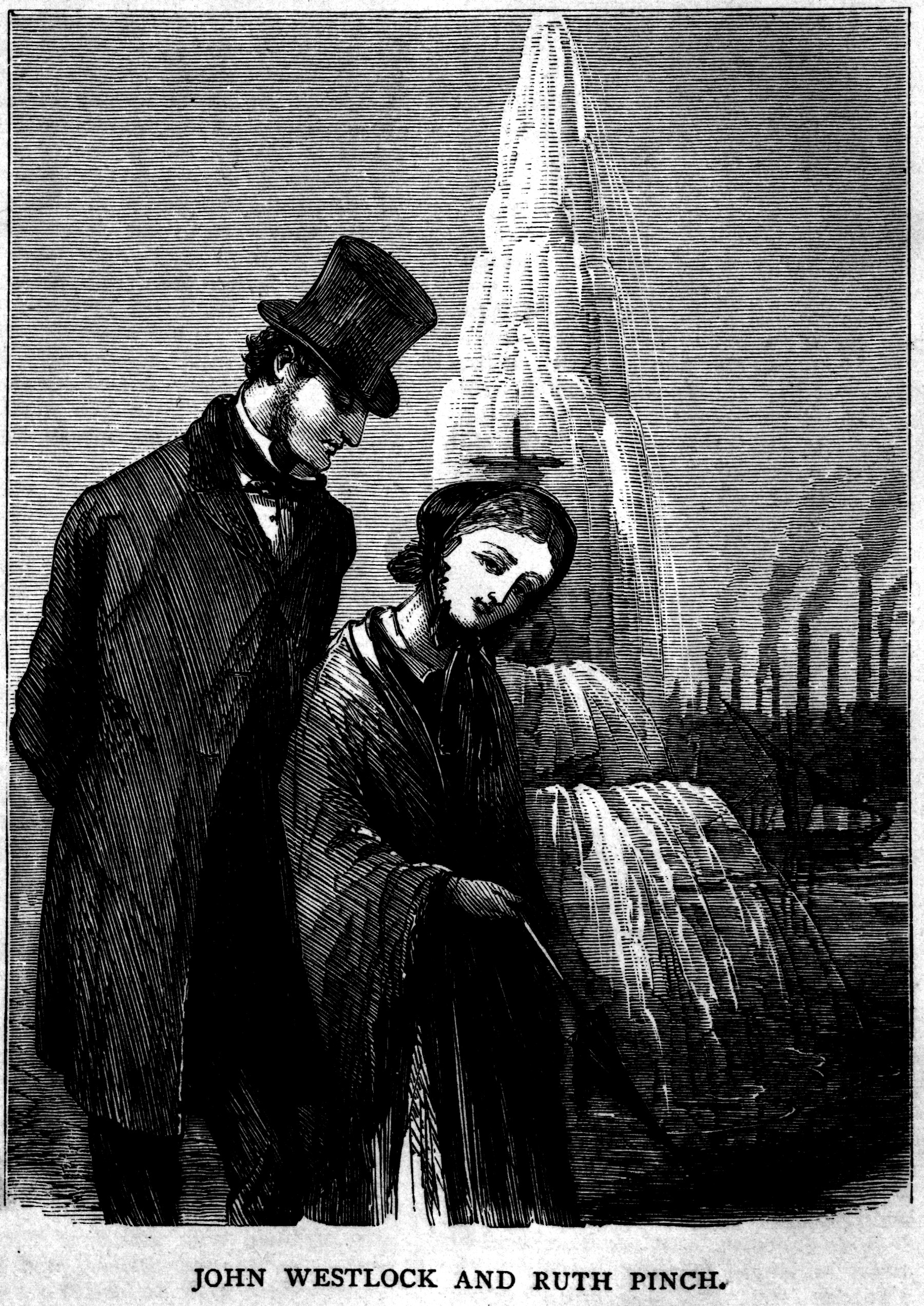 Illustration from 1867 U.S. edition of Martin Chuzzlewit. Page 468. "John Westlock and Ruth Pinch"